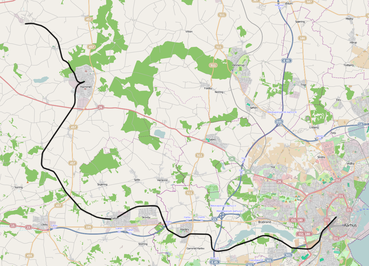 Railway line Århus - Thorsø